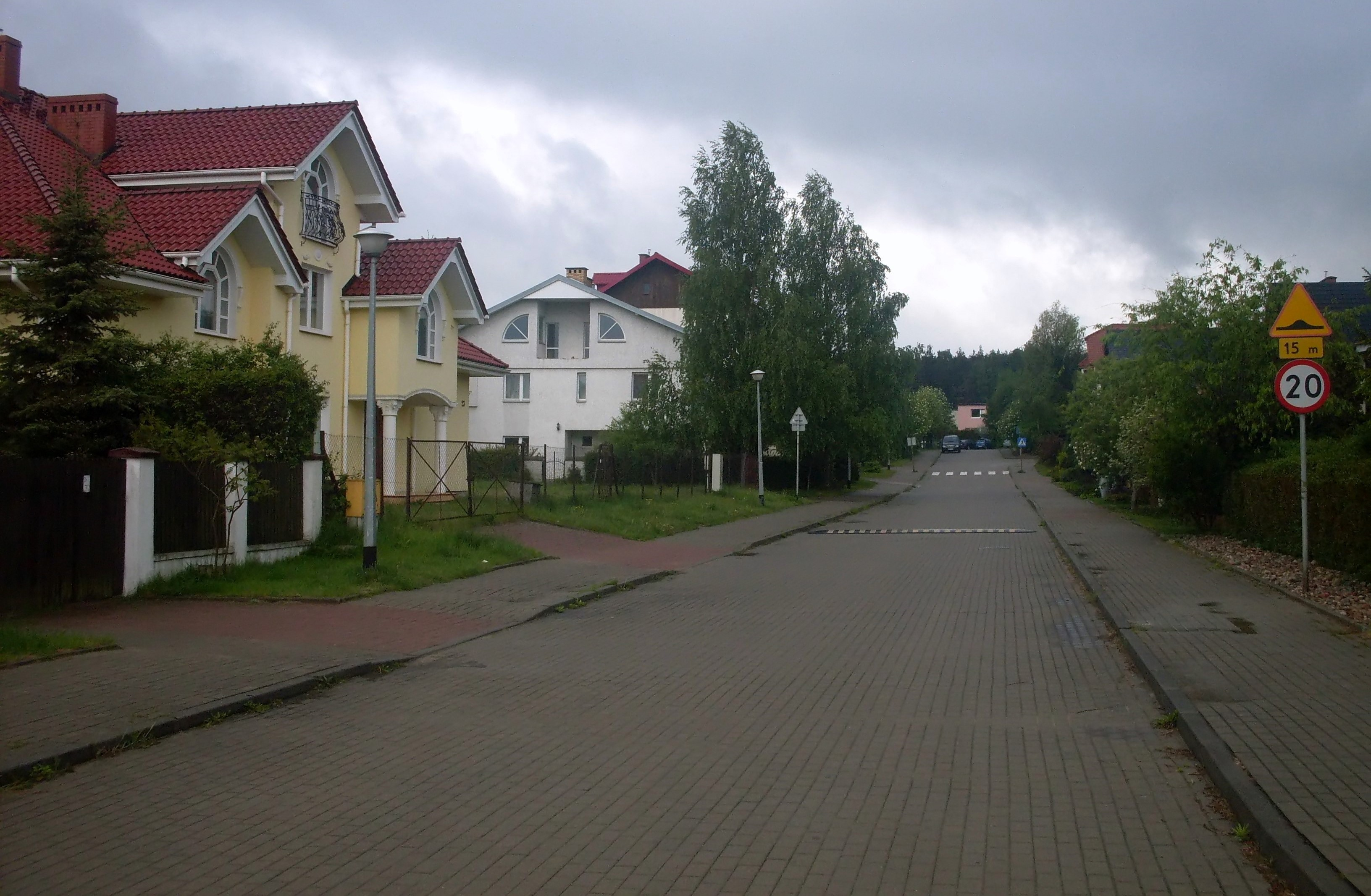 Ulica Merkurego in Gdynia.